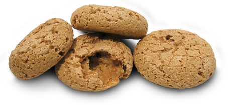 Amaretti secchi (dry amaretto cookies), very common in north of Italy and Sardinia.